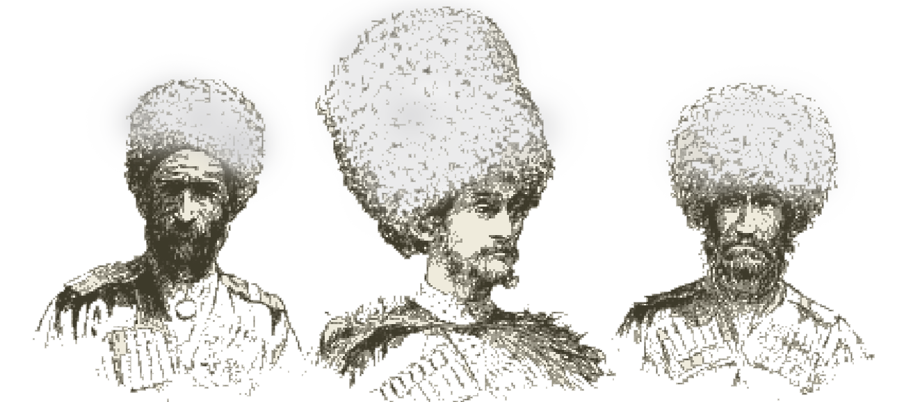 Drawings of three Circassian Characters